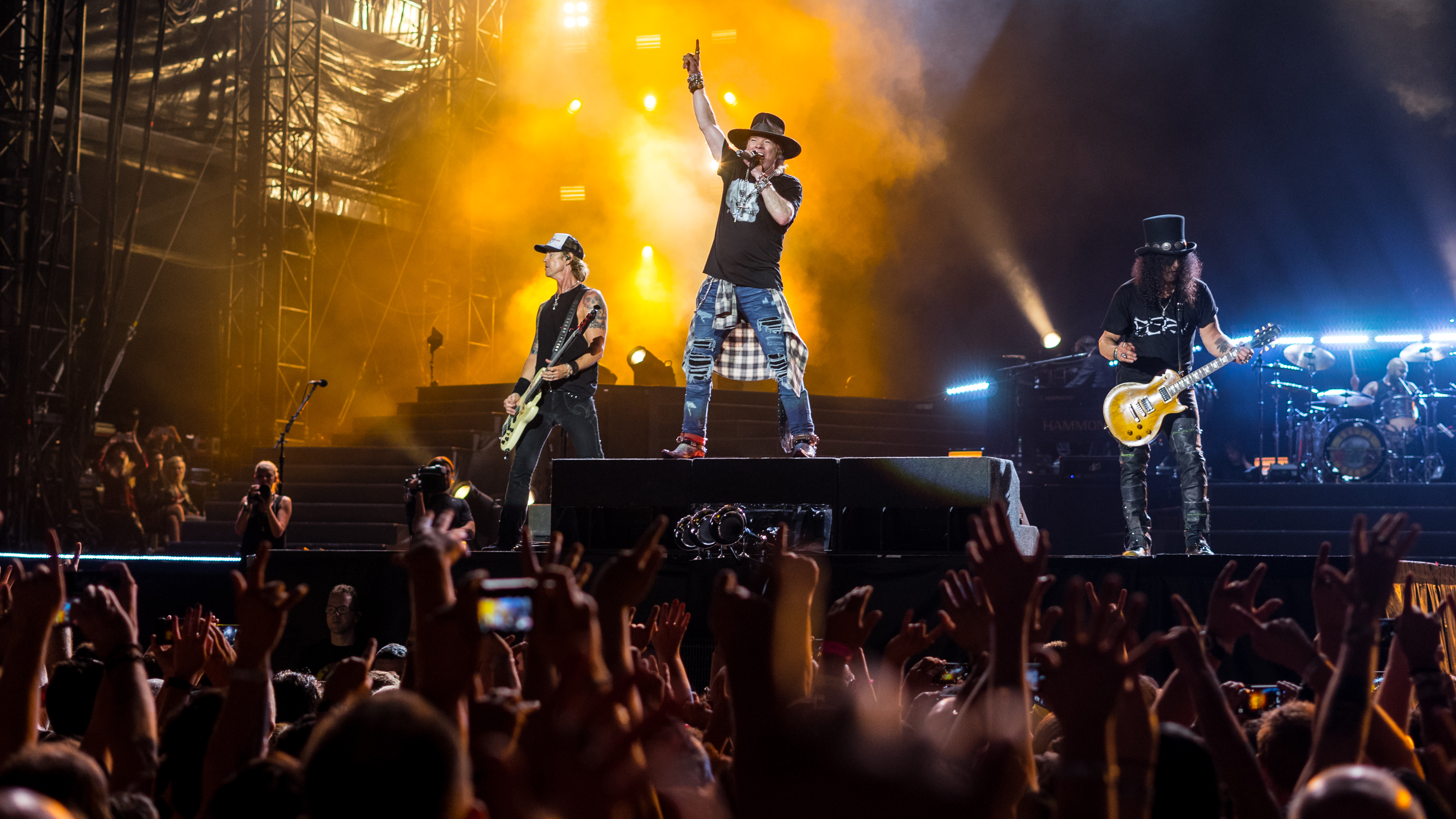 Guns N' Roses - London Stadium - Friday 16th June 2017